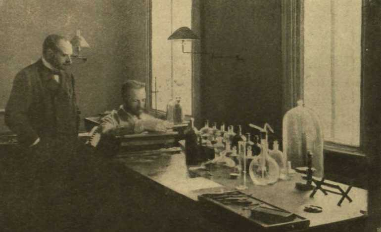 MD Gusztáv Oláh (1857°) and MD László Epstein (1868°) at work in in a laboratory. Hungarian newspaper "Vasárnapi Ujság", October 30, 1904